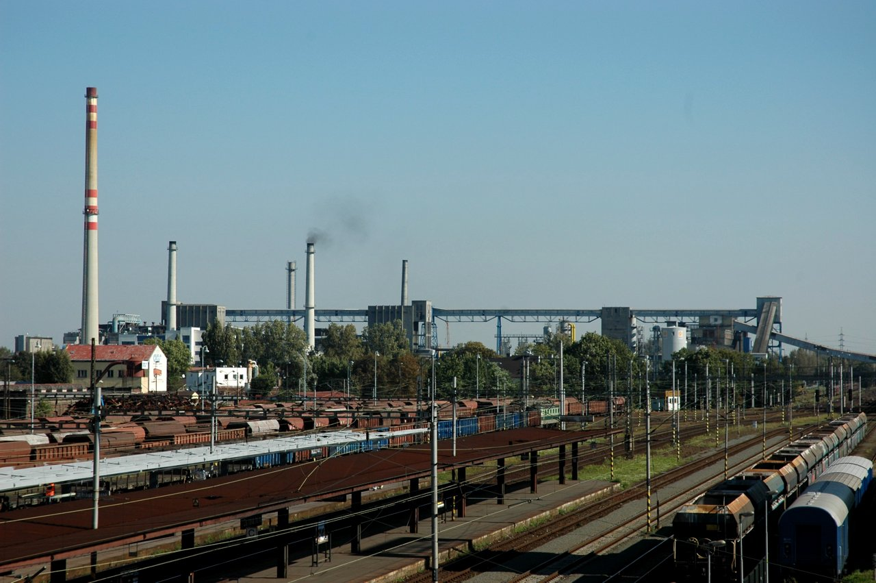 Ostrava main station (in front), Přívoz heat plant (left) and Svoboda coking plant, Ostrava, Czech Republic